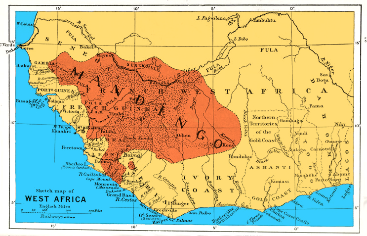 Sketch map of West Africa to show area of Mandingo peoples, languages and influence. Coloring with File:MandingoMap-1906.jpg.